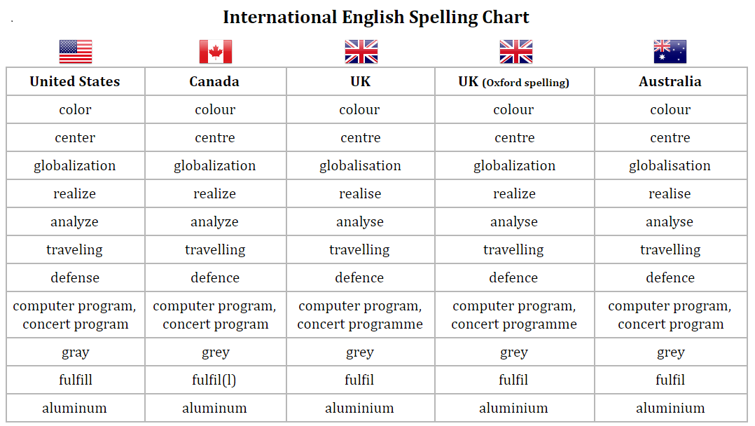 Overview of differences in spelling for American, British, Canadian and Australian English.